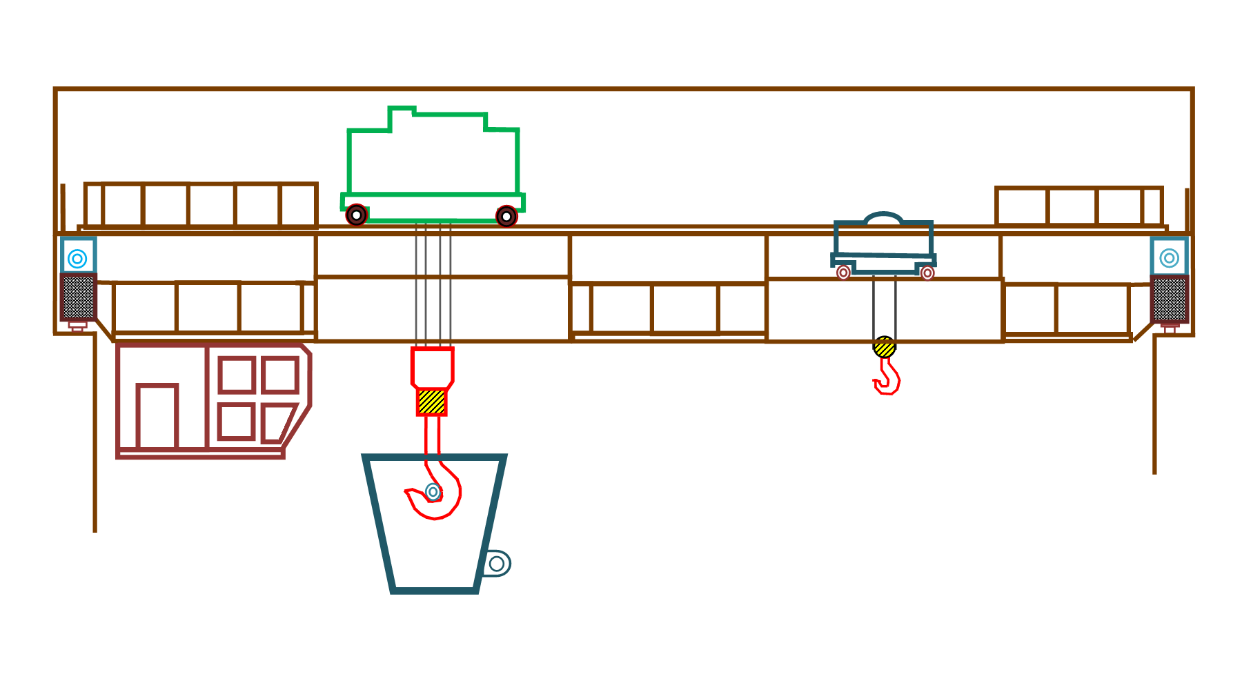 Overhead crane used to handle molten steel lables.